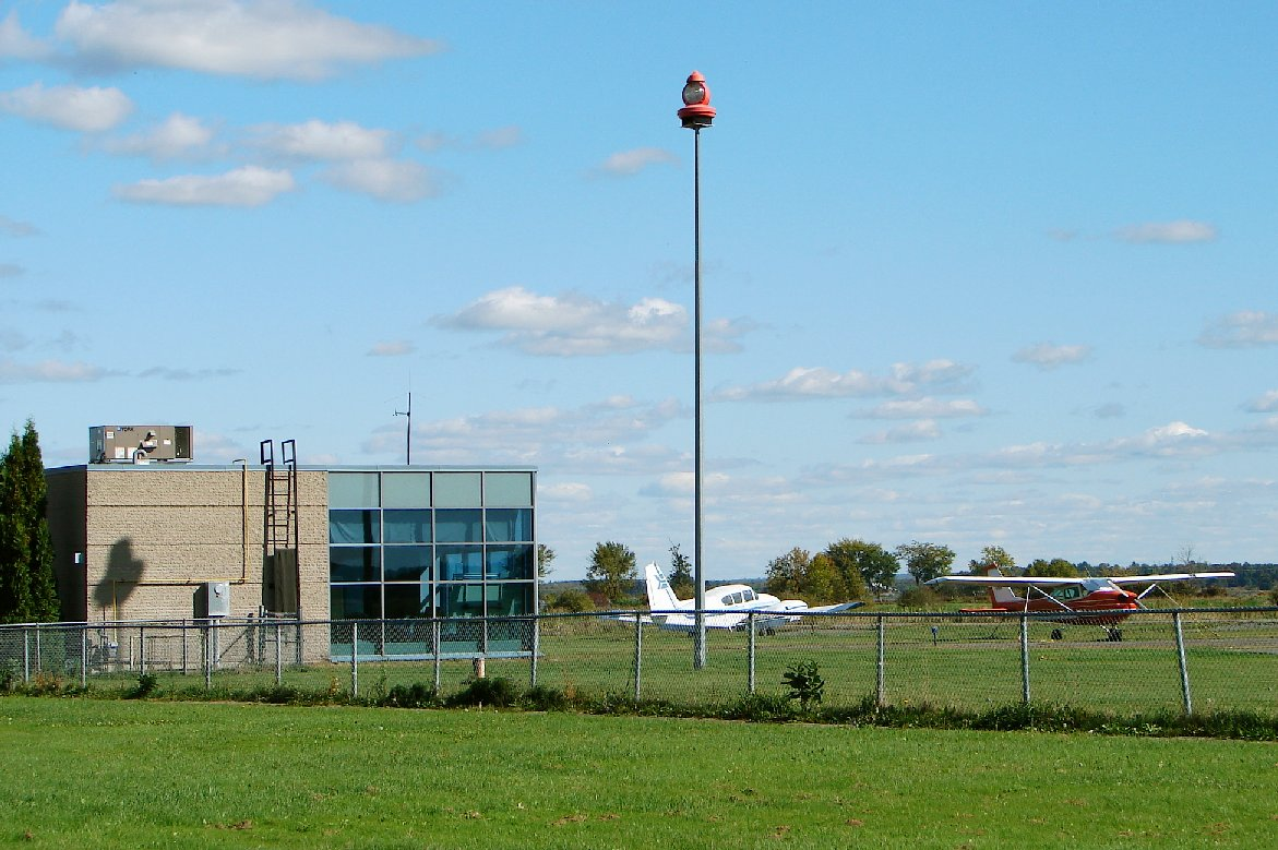 Arnprior/South Renfrew Municipal Airport, Arnprior, Ontario, Canada